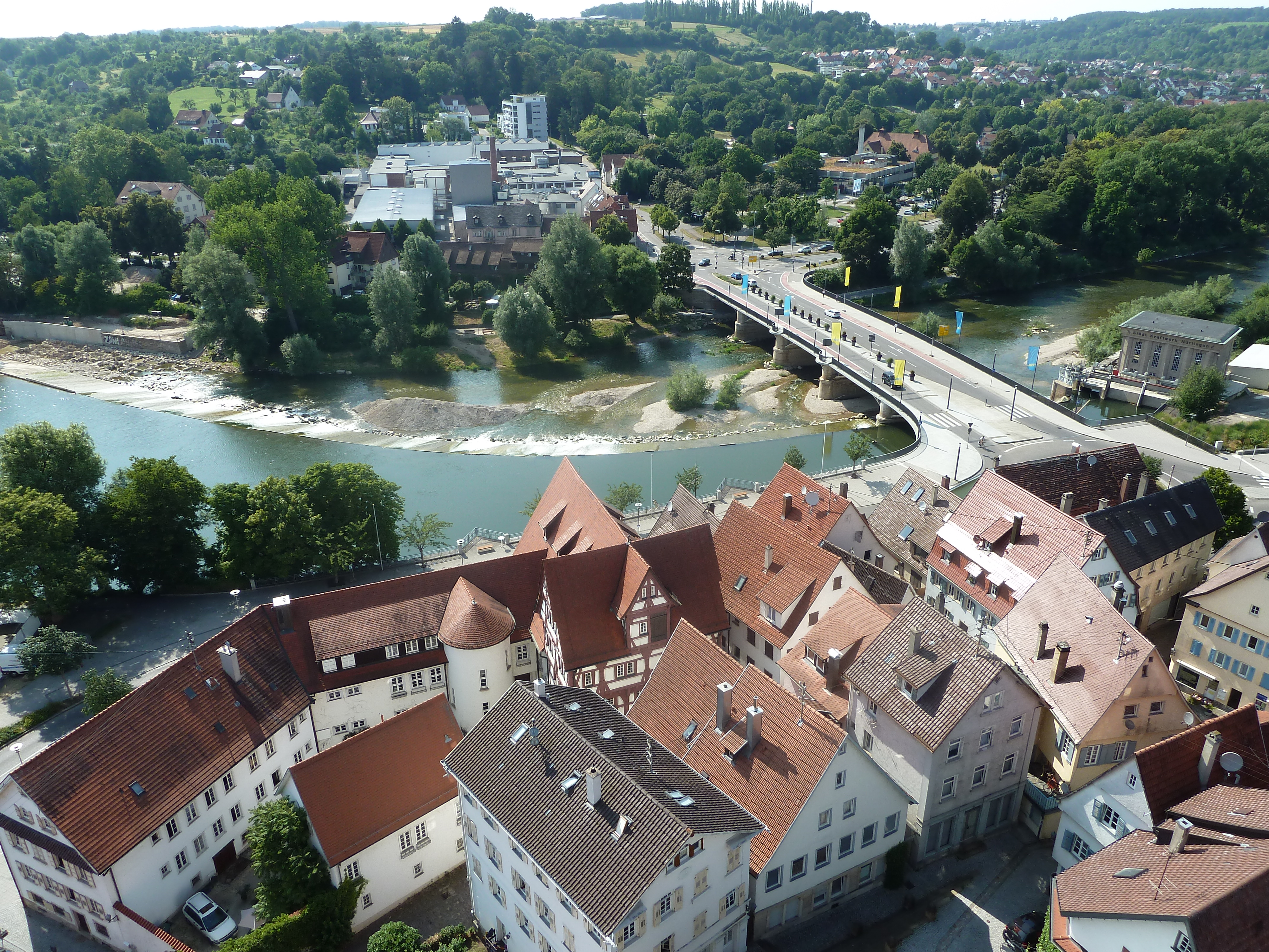 Aerial view from church tower, Nuertingen, Germany